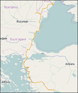 screenshot of map (from